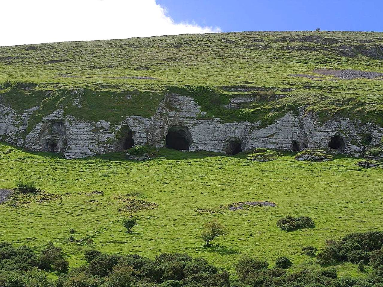 Image title: Keshcorran caves cliffs Image from Public domain images website